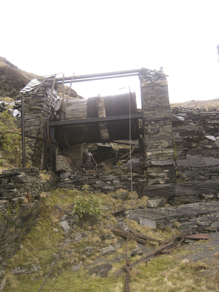 Winding house at the head of the Rhiwbach Tramway No. 2 incline, Blaenau Ffestiniog, Wales